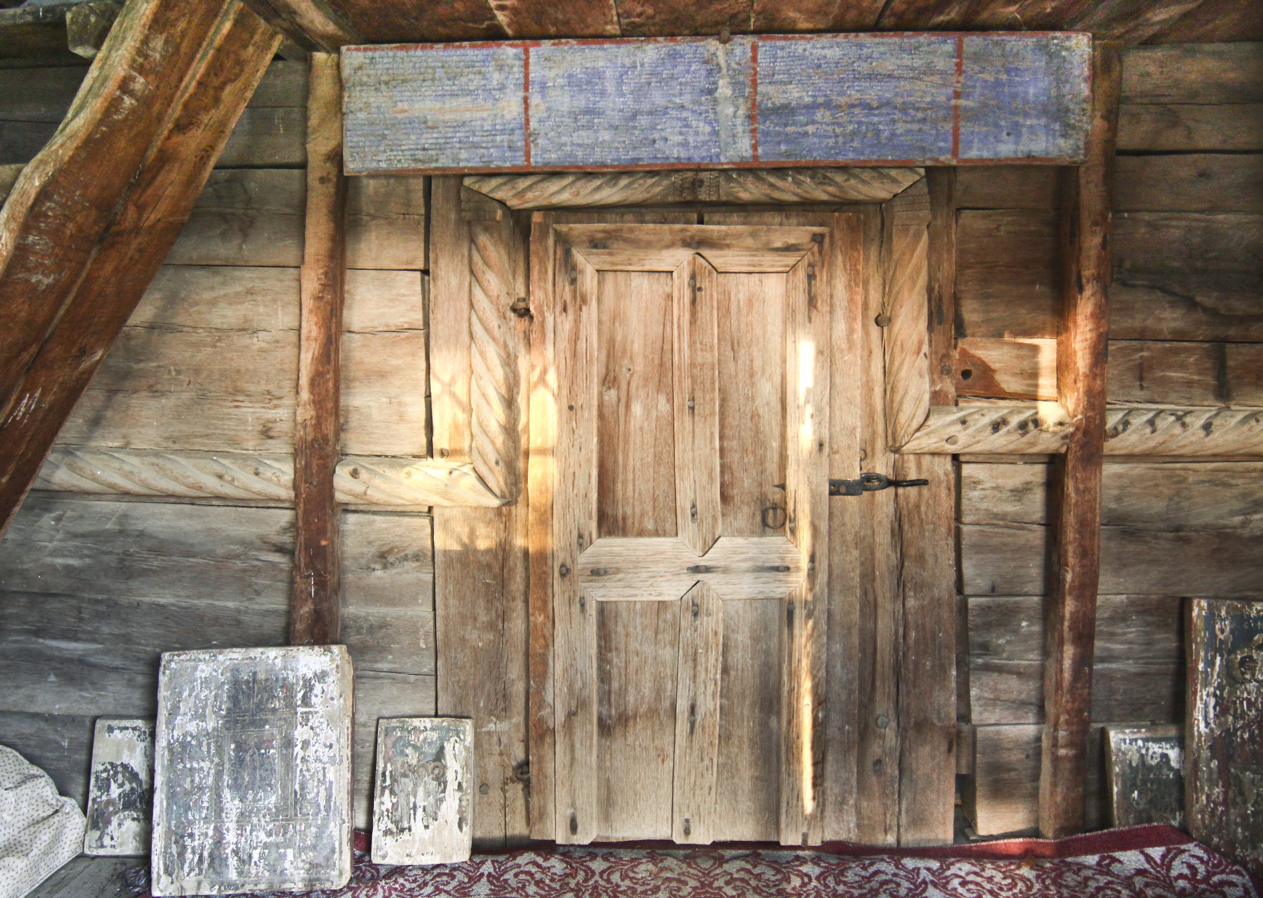 Wooden church in Bărbălani, Argeș county, Romania.